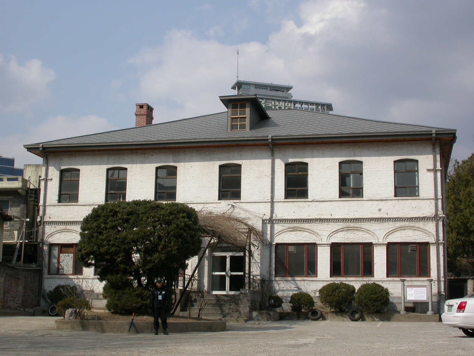 Jungmyeongjeon, before the restoration